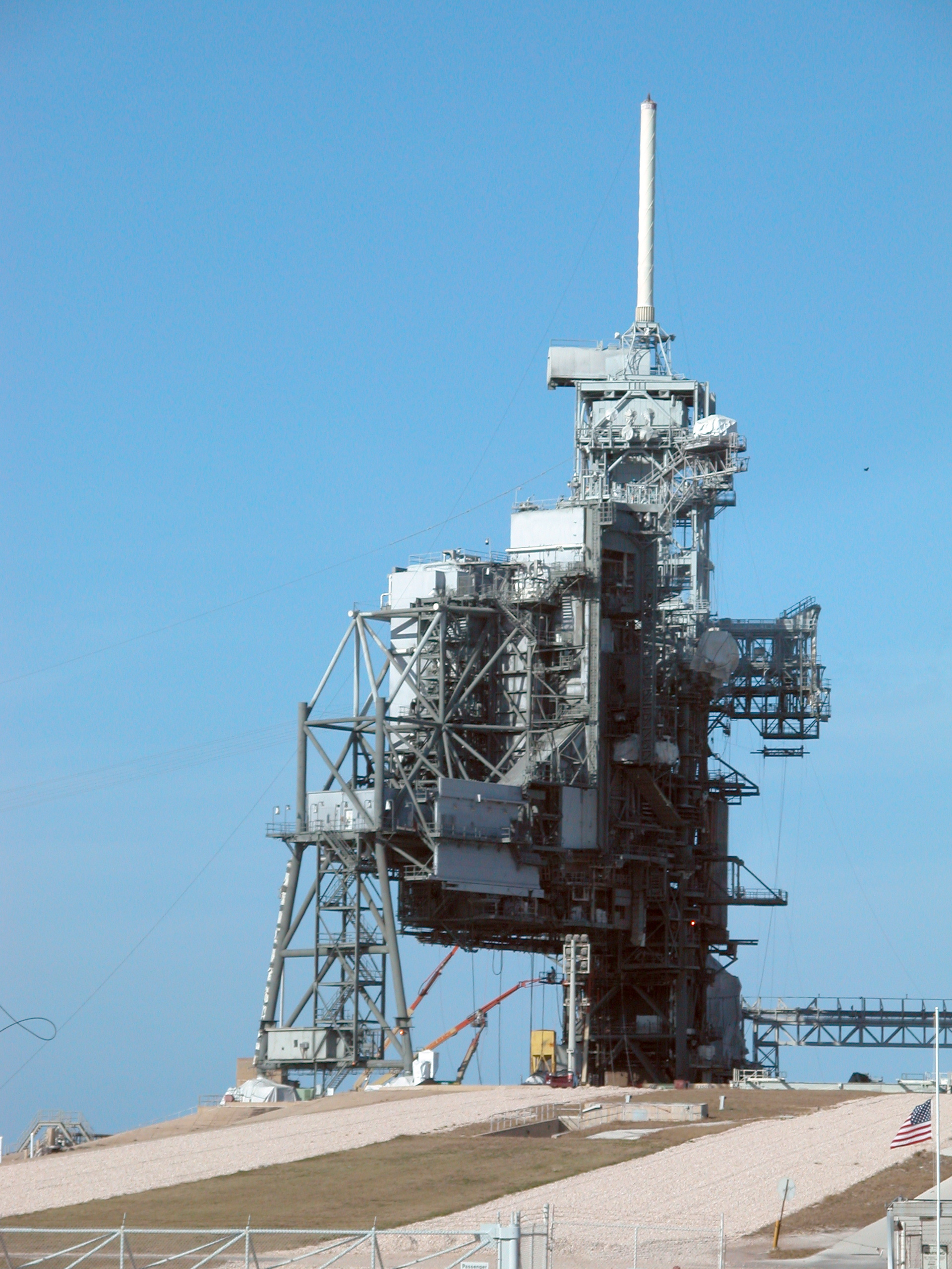 The launch pad 39B (identical in all respects to 39A). Its appearance has been changed since the Apollo Project, to allow the launch of the Shuttle.